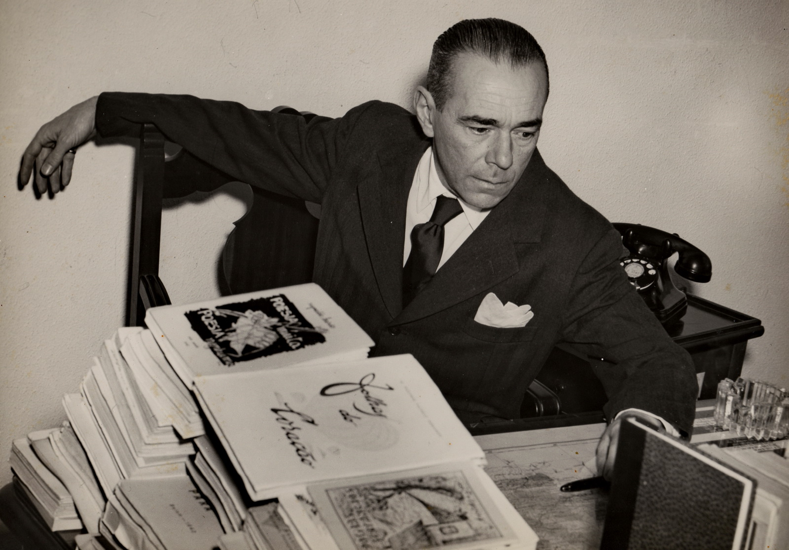 Brazilian Writer Guilherme de Almeida in 1930s